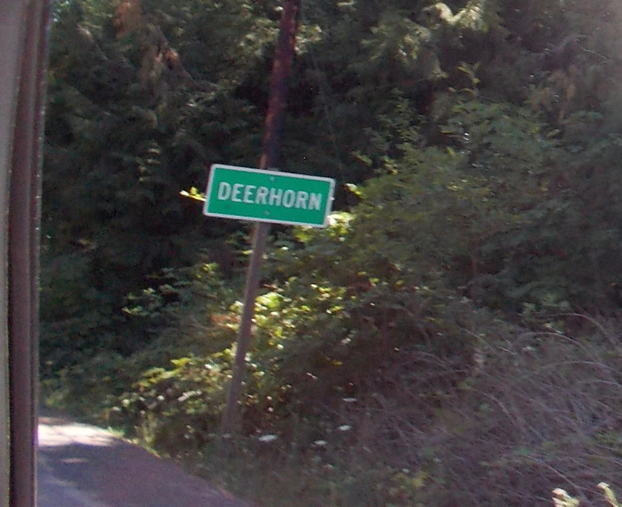 Deerhorn